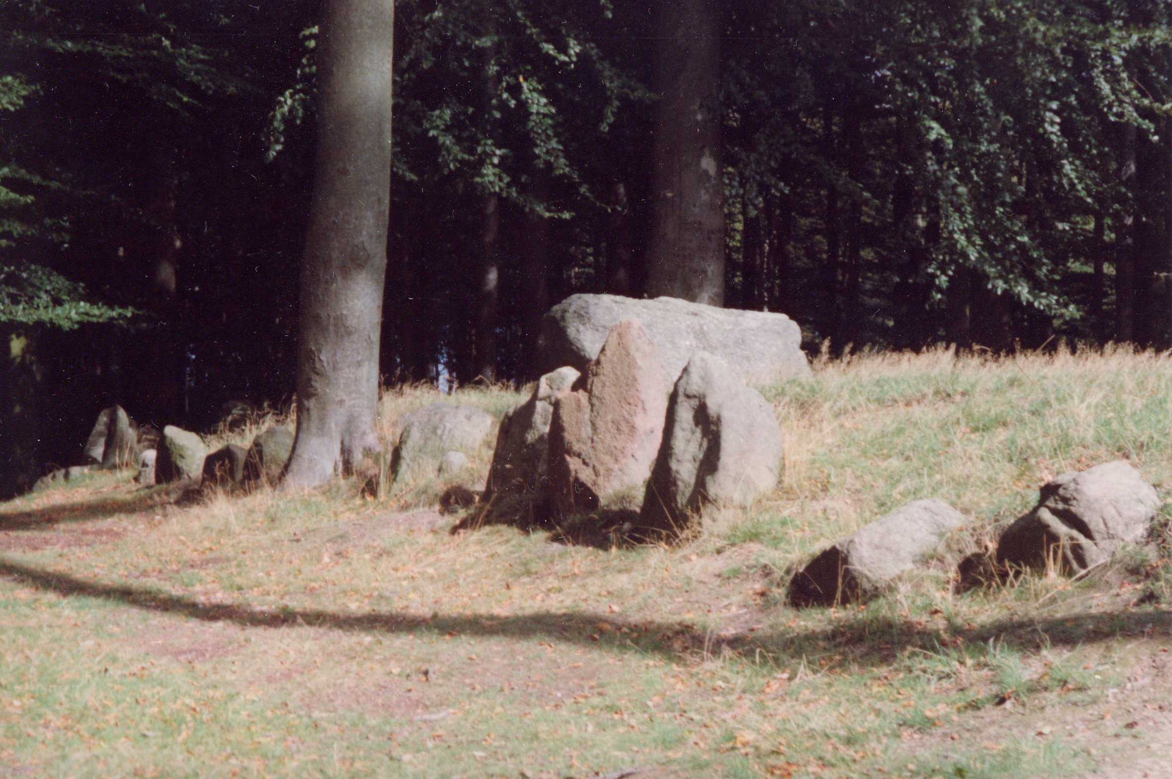 Dolmen Sønderskoven near Sønderborg, Als Island, Danmark